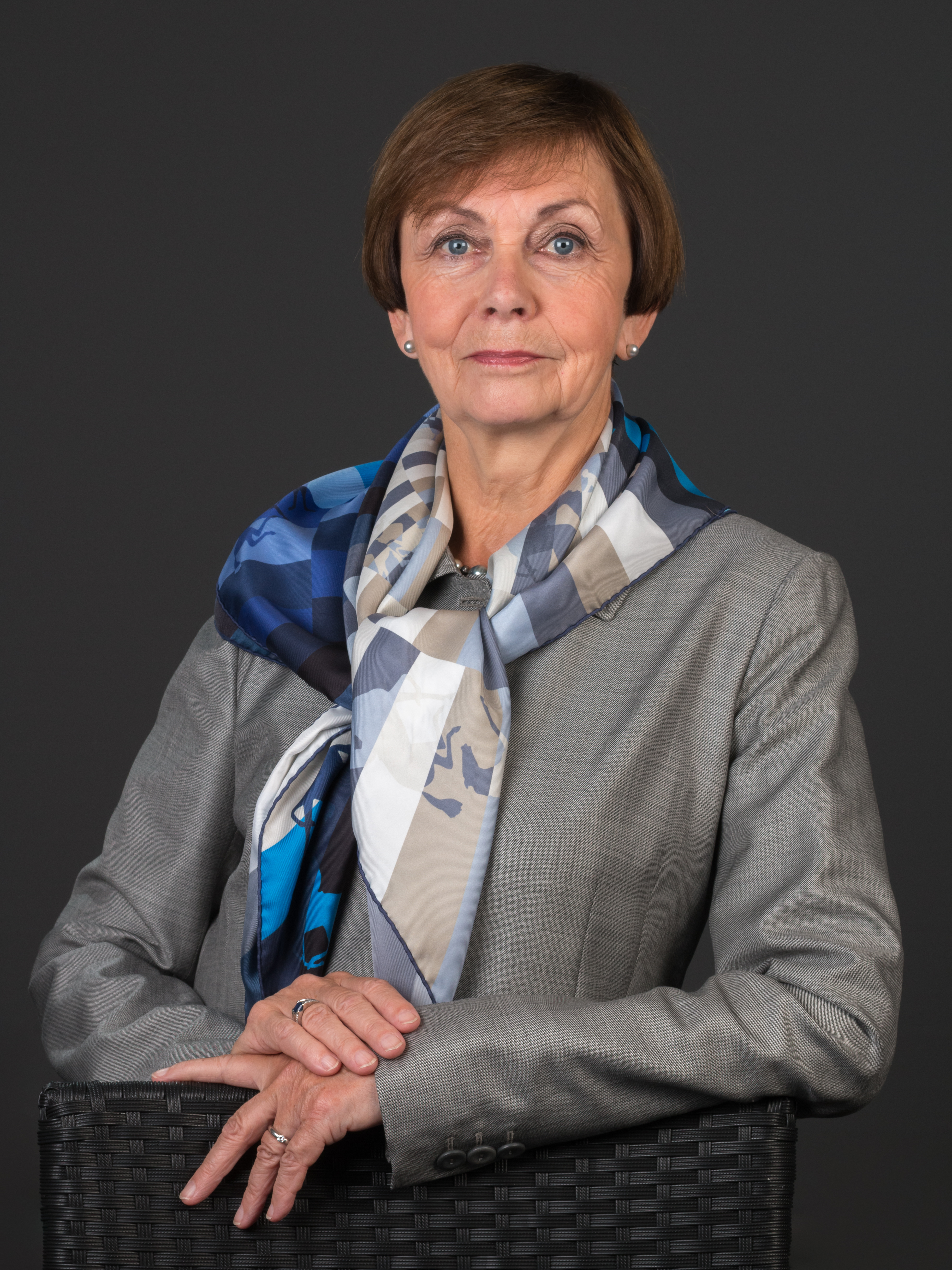 Herlind Gundelach, MdB, Christian Democratic Union